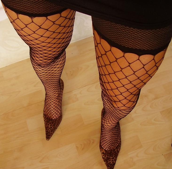 Person wearing fishnet stockings and high heels.